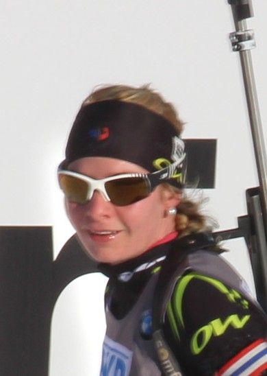 Coline Varcin at Biathlon World Cup 2015 in Nové Město, Czech Republic – sprint women